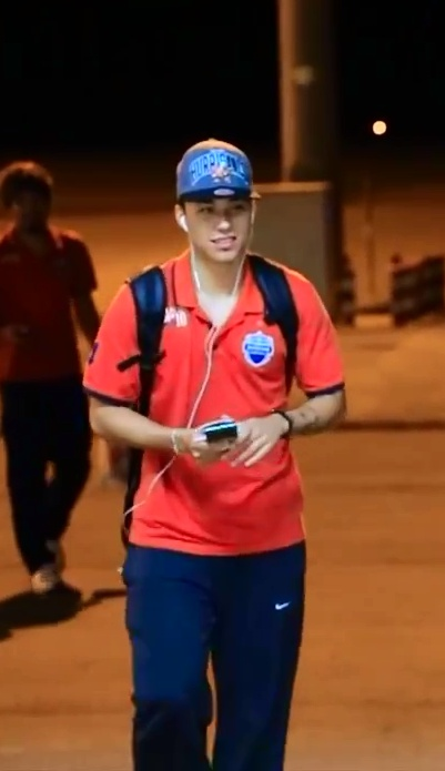 Charyl Chappuis at Buriram Airport